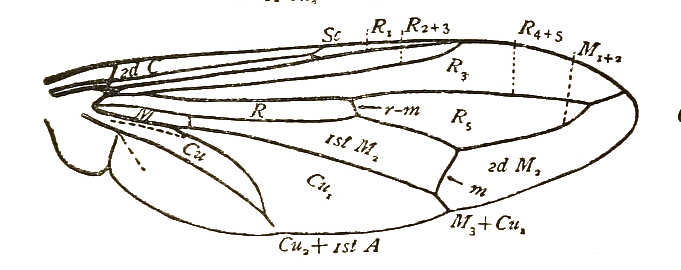 Wing venation of Conops genus (Conopidae, Diptera)